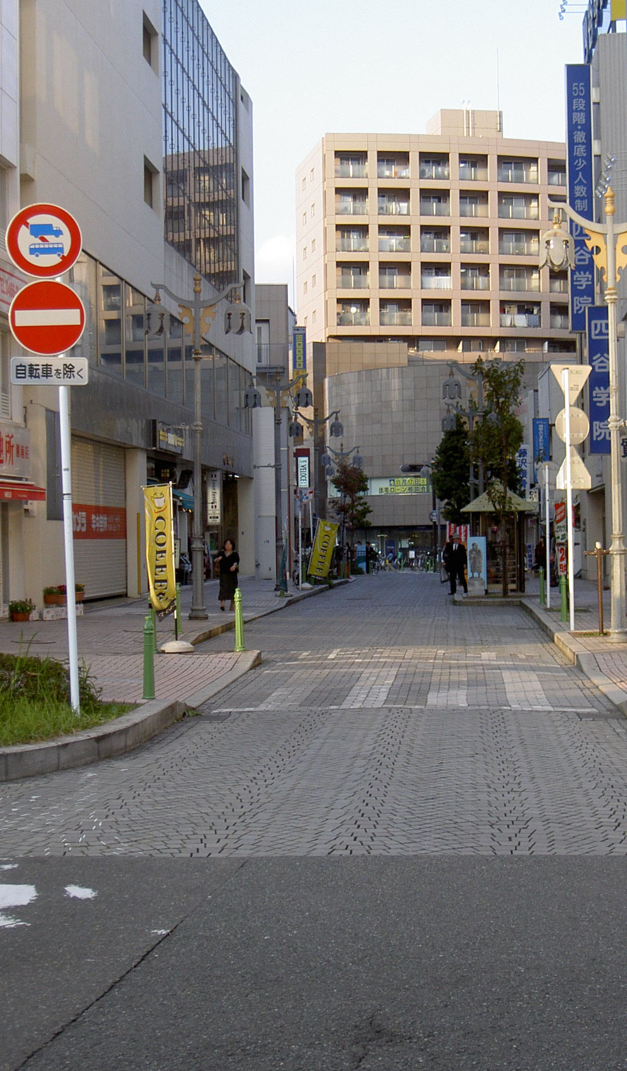 Kanagawa prefectural road route 306 ja: 神奈川県道306号藤沢停車場線